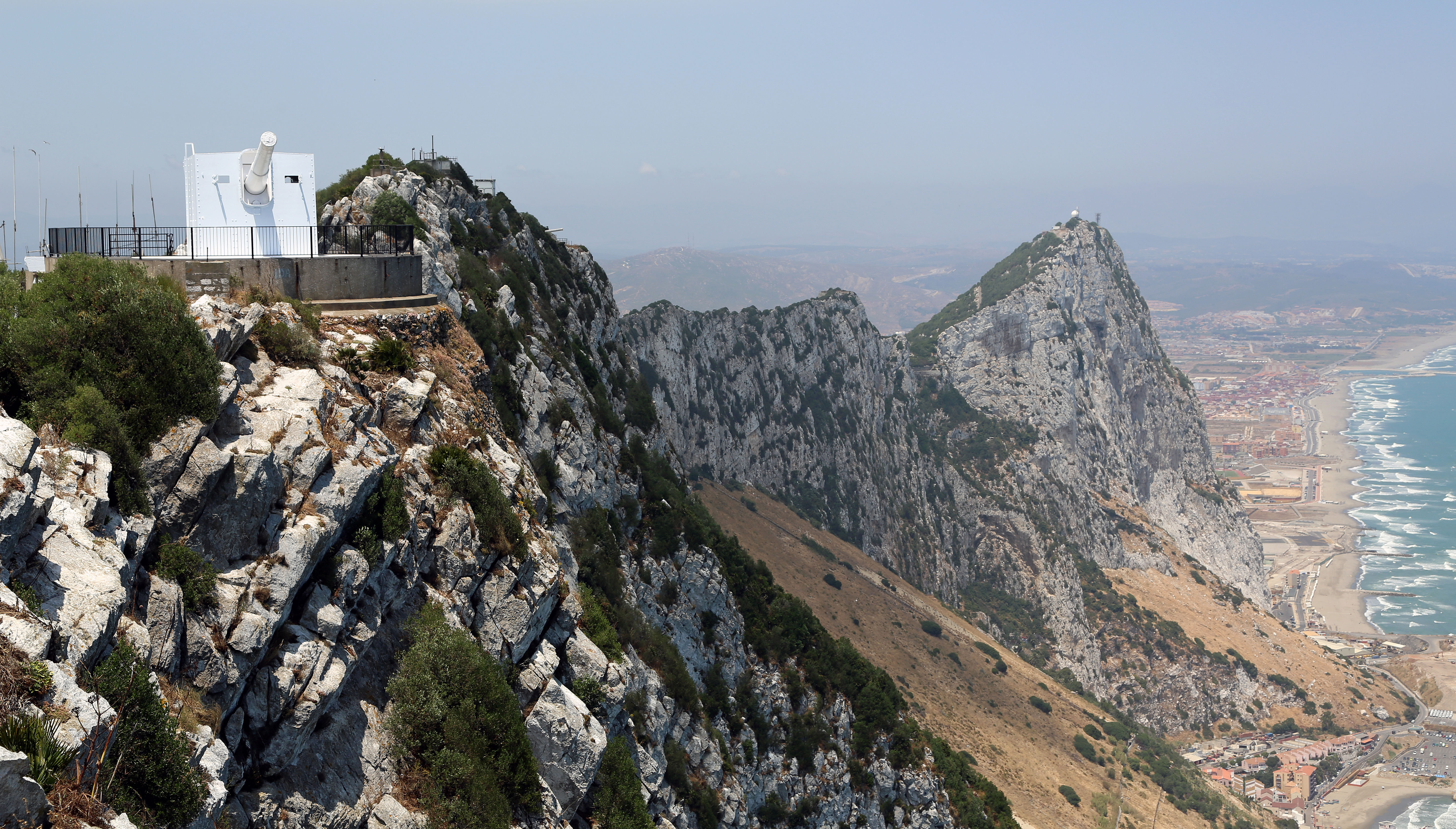 Lord Airey's Batteries is located at the highest point on the Rock of Gibraltar at a height of 426 meters (1,383 ft). The Batteries are built on the site of O'Hara's Tower and named after Governor General Charles O'Hara. O'Hara had believed that, if a watchtower was constructed on the highest point of the Rock, the Garrison would be able to observe the Spanish fleet at Cadiz. O'Hara's Tower was not successful in its intended purpose and was therefore nicknamed O'Hara's Folly. O'Hara and Lord Airey's Batteries are two of three surviving 9.2 inch Mark X Coastal Defence Gun emplacements in Gibraltar. The third emplacement is located at Breakneck Battery which continues to under the ownership of the Ministry of Defence and inaccessible. A similar 9.2 inch Mark X Coastal Defence Gun originally sited at Spur Battery below O'Hara's Battery was dismantled and relocated at the Imperial War Museum at Duxford. A photo of the Gibraltar Gun at Spur Battery can be viewed in the set of the same name in this photostream. The 9.2 inch Mark X Coastal Defence Guns at O'Hara's, Lord Airey's and Spur Batteries had a range of 29,600 yds which easily covered both the Straits of Gibraltar (25,500 yds) and the Bay of Gibraltar (9,000 yds).